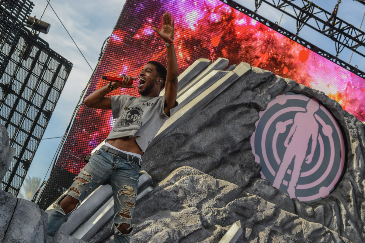 Kid Cudi performing at the Coachella Valley Music and Arts Festival on April 19, 2014 in Indio, California.